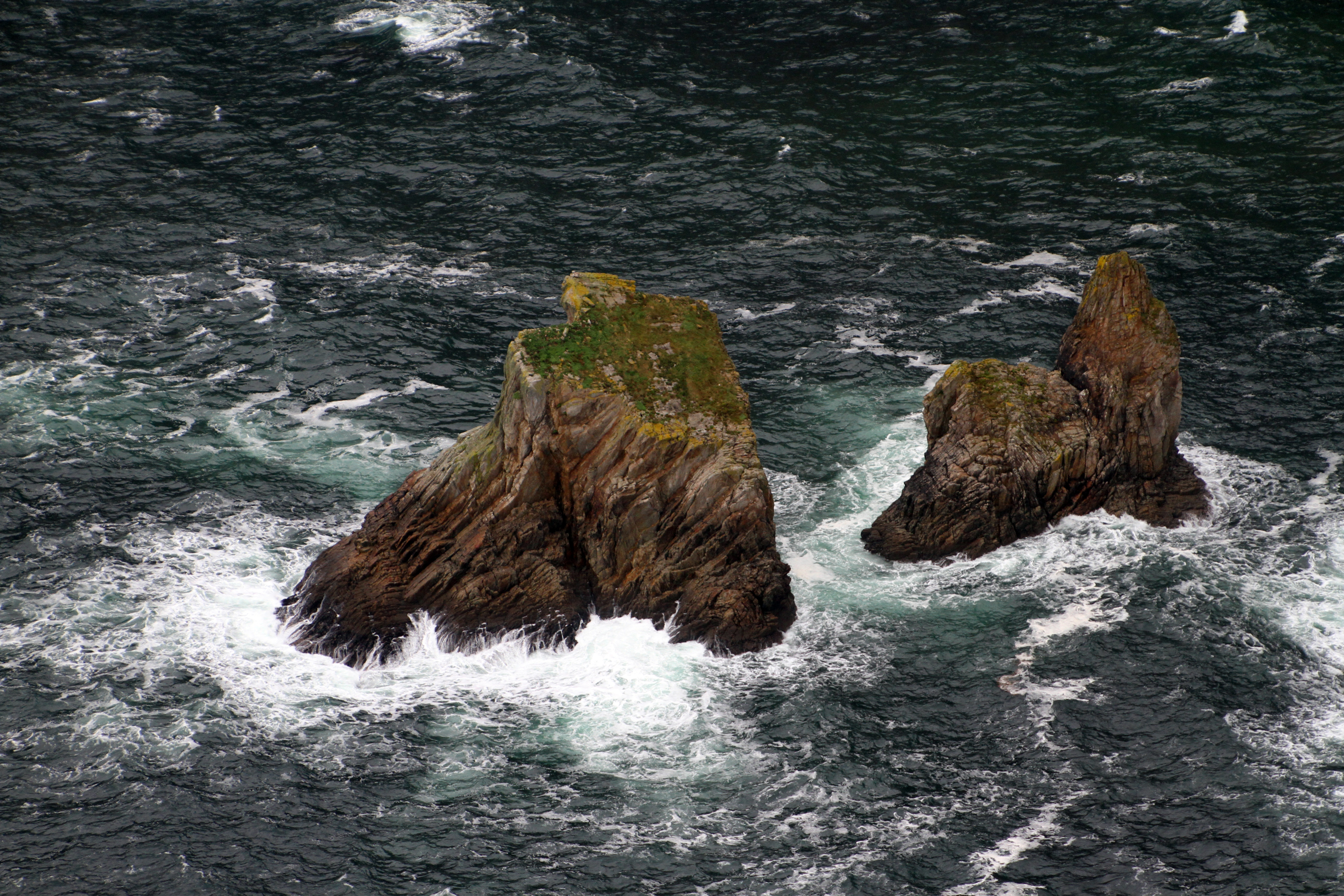 Slieve League